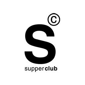 Logo of the Supperclub in Amsterdam, est. 1993